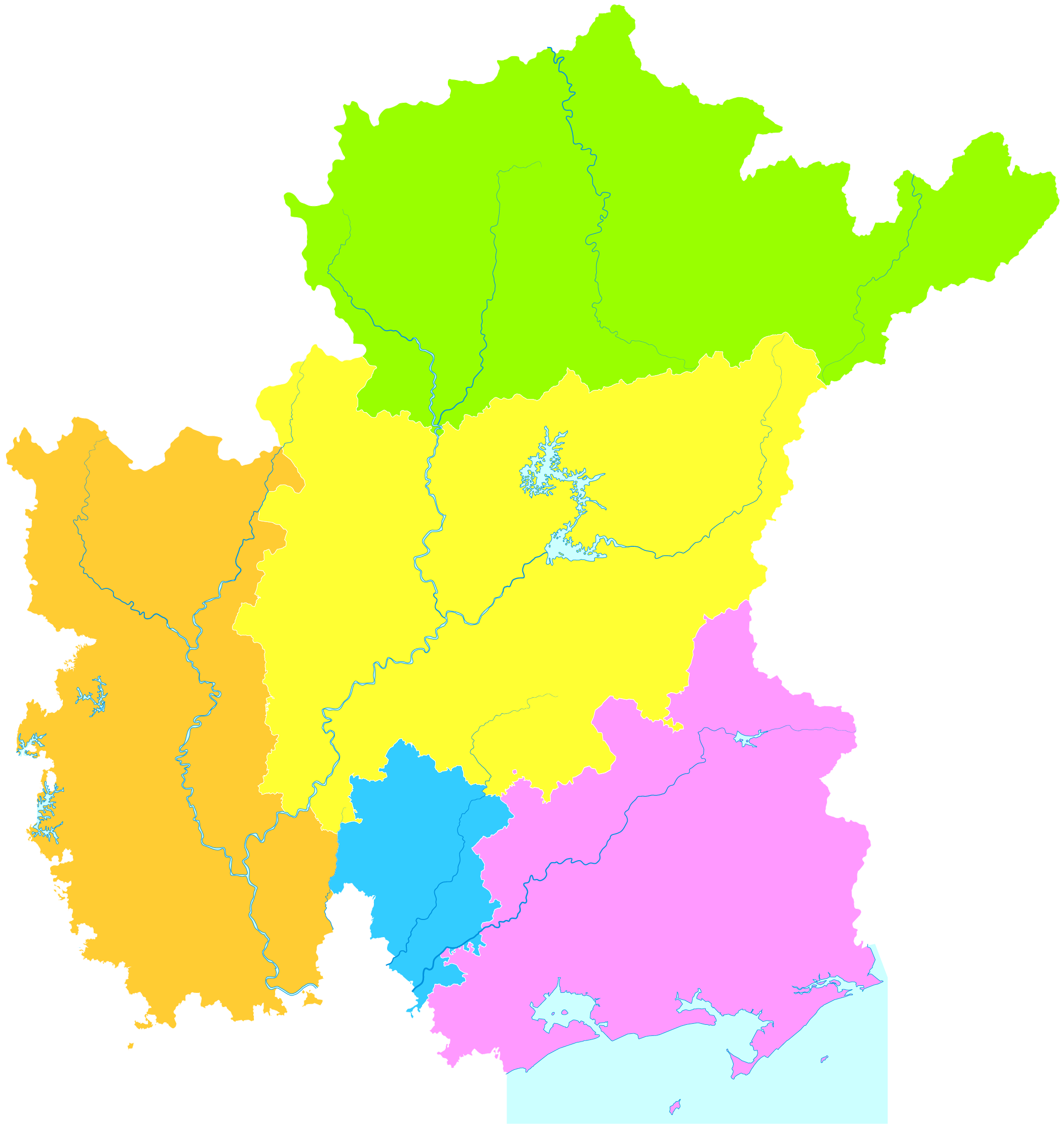 administrative divisions of Maoming City, Guangdong, China